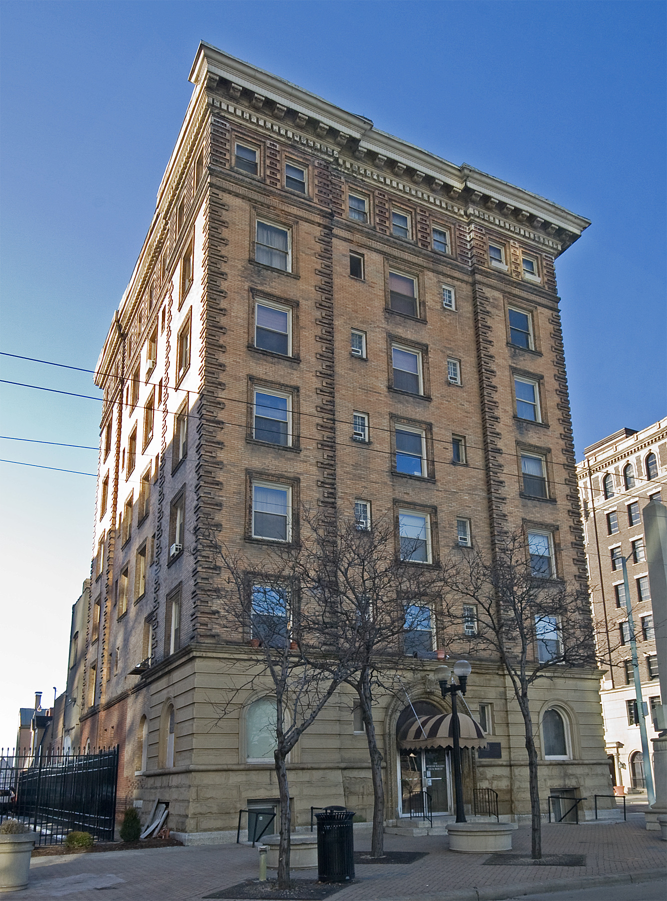 Insco Apartments Building in Dayton, Oh. Photo by Greg Hume.